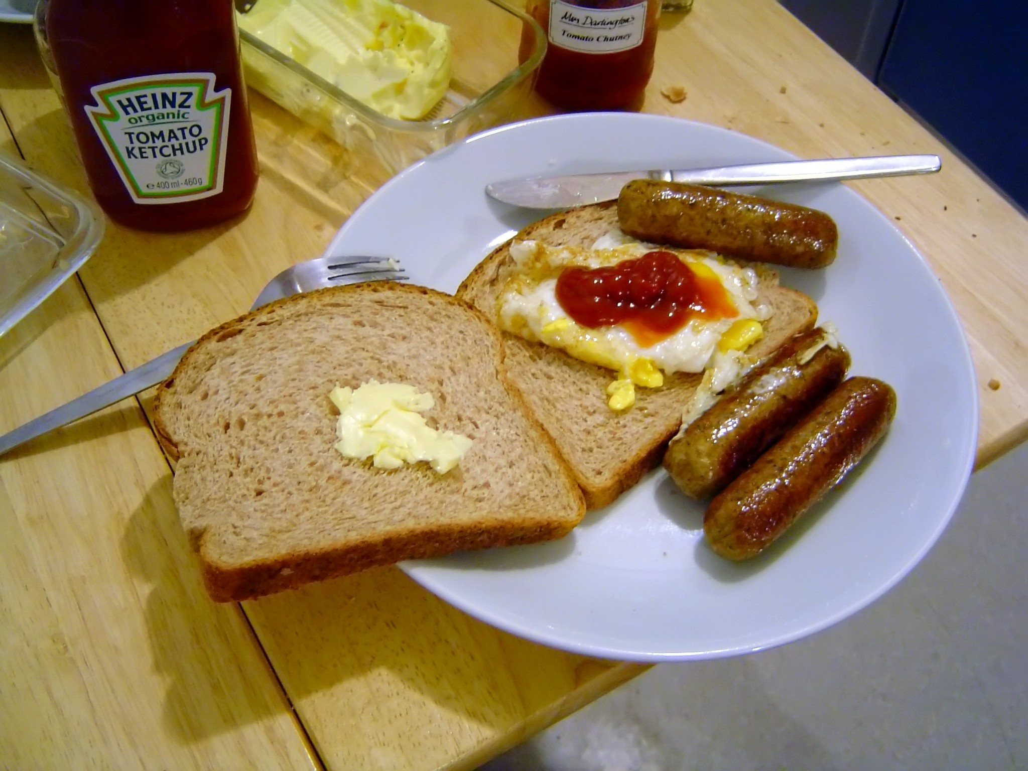 A Sausages and fried egg sandwich with tomato ketchup